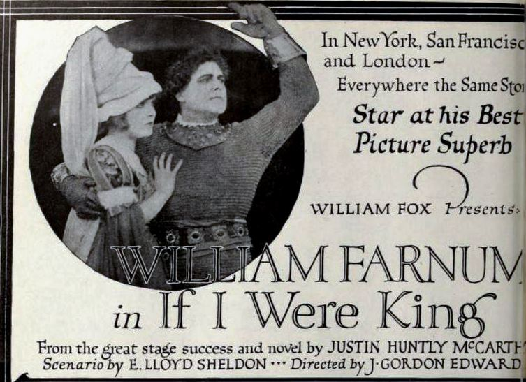 Advertisement for the American drama film If I Were King (1920) with Betty Ross Clarke and William Farnum, on page 22 of the September 18, 1920 Exhibitors Herald.